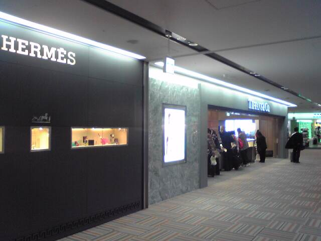 Hermès and Tiffany boutiques at Narita Terminal 2